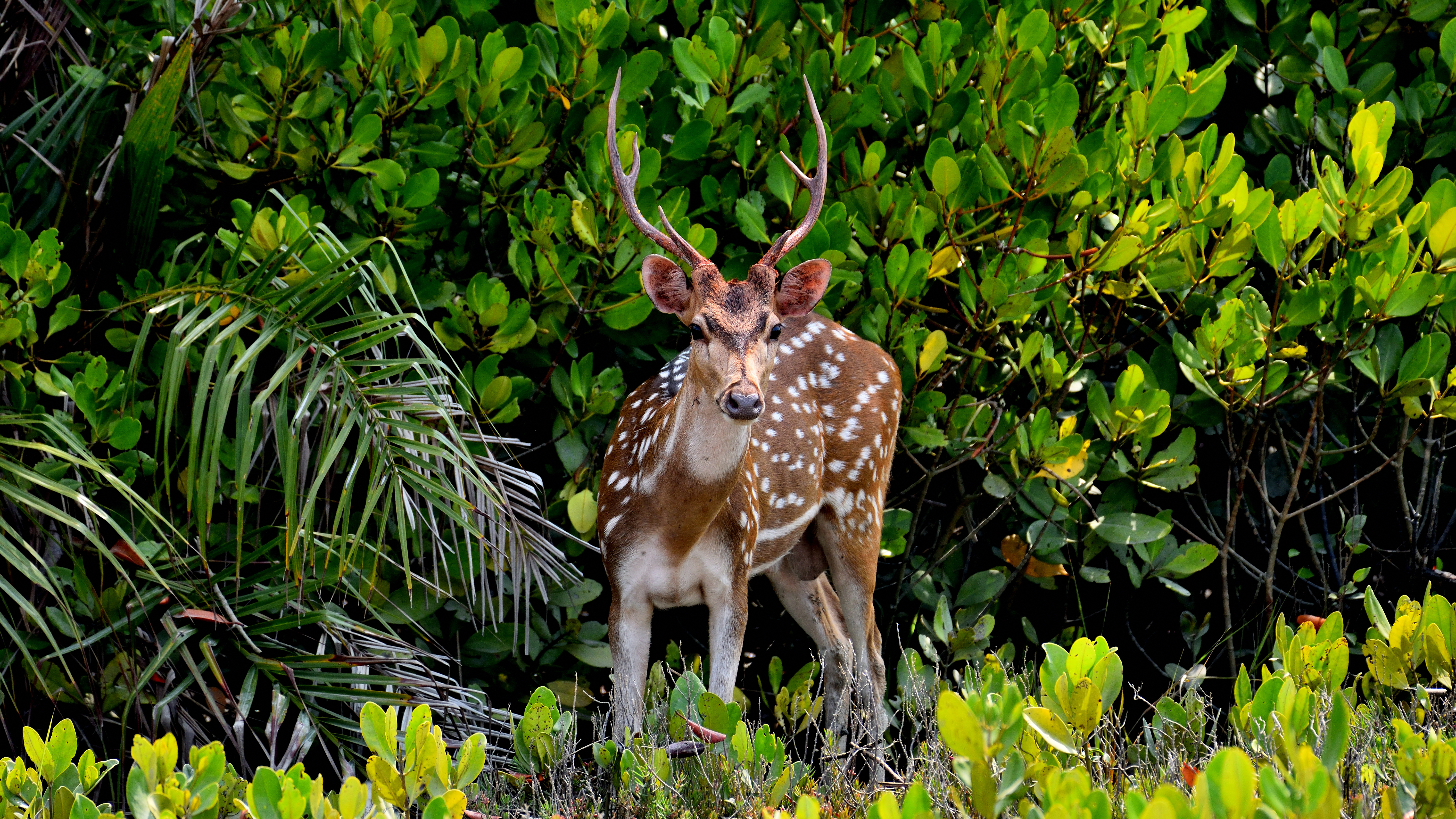 Chital at Sunderban.